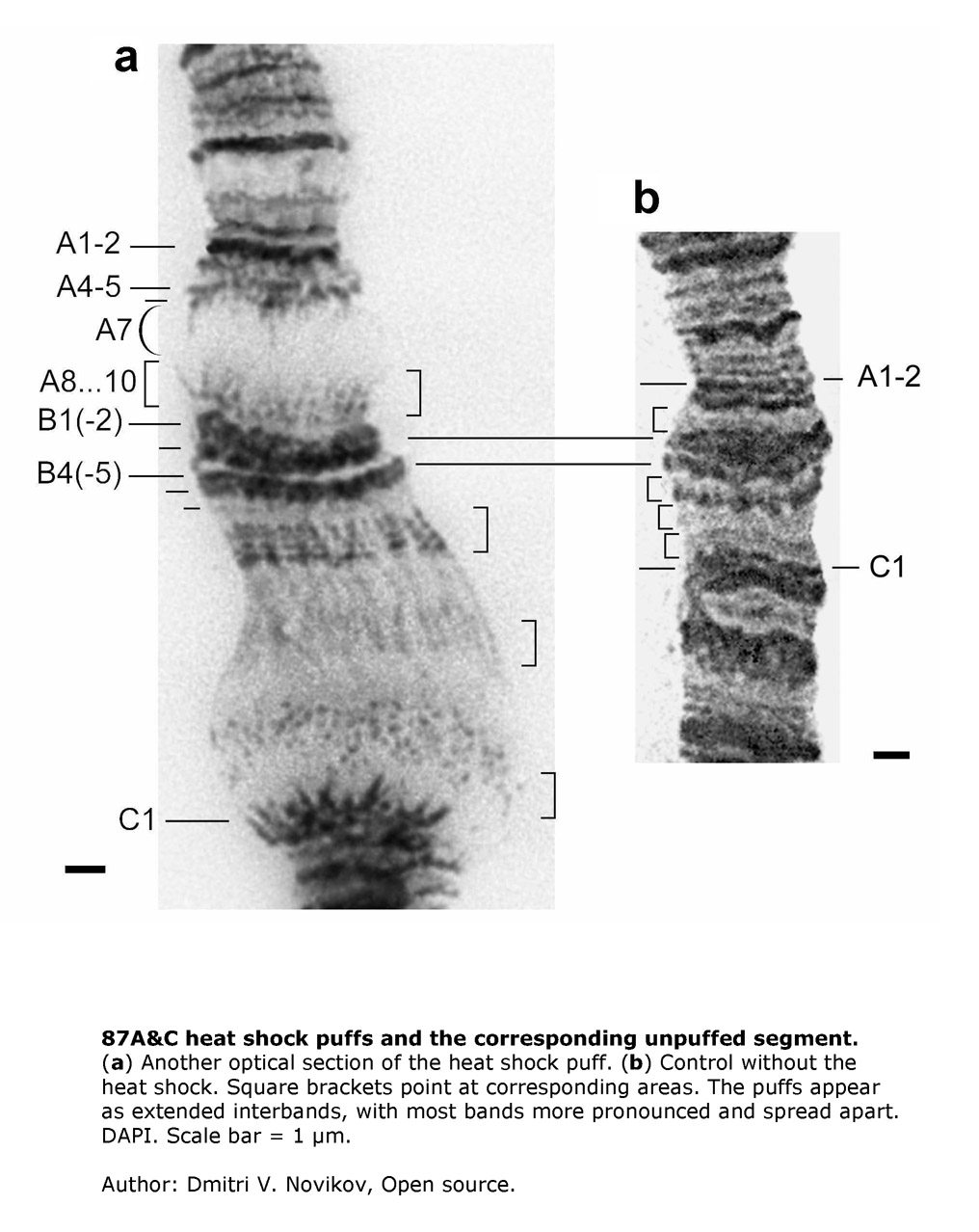 87A&C Heat-shock puffs in Drosophila melanogaster polytene chromosomes.